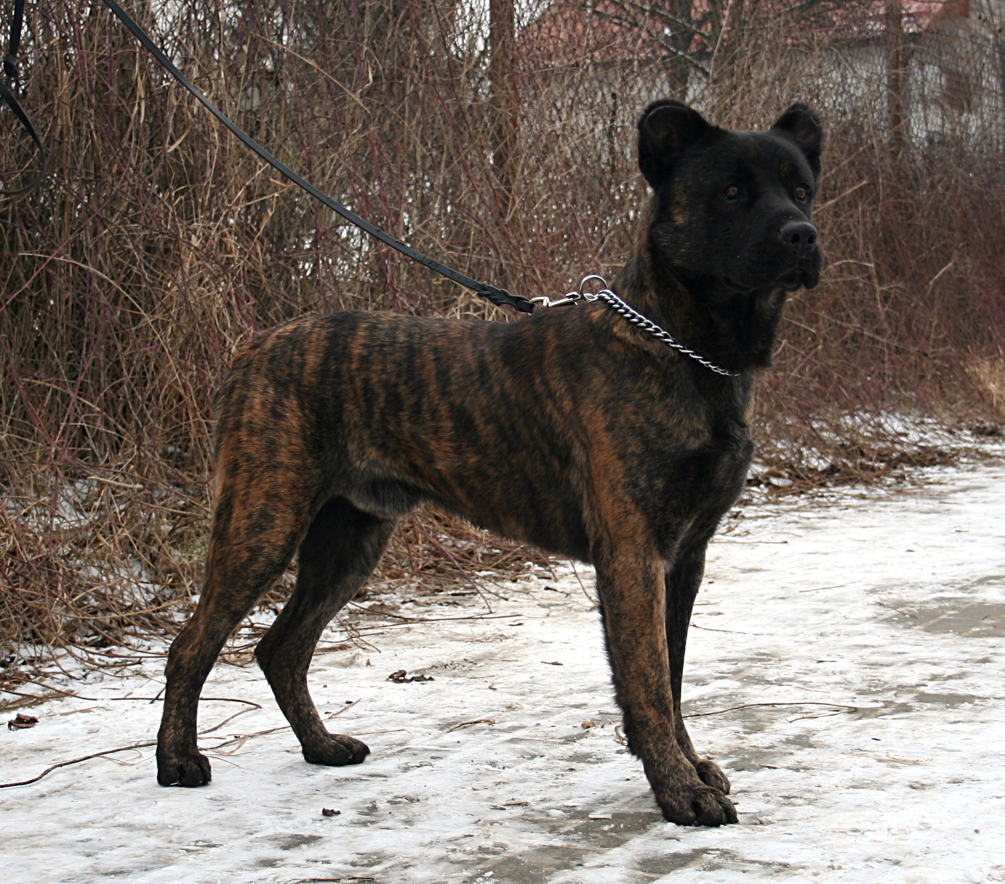 Cão Fila de São Miguel during International dog show in Rzeszów, Poland. Łukasz Pawłowski is the breeder and owner from the kennel "Nes Gwadiana".